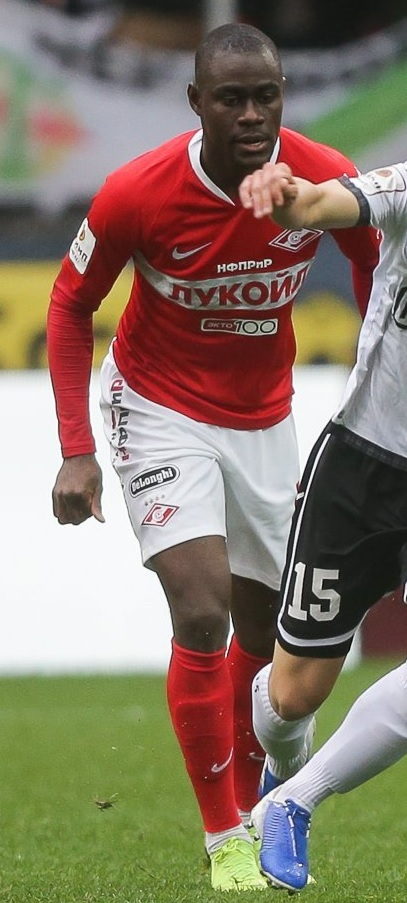 Idrisa Sambú with FC Spartak-2 Moscow in a game against FC Torpedo Moscow.